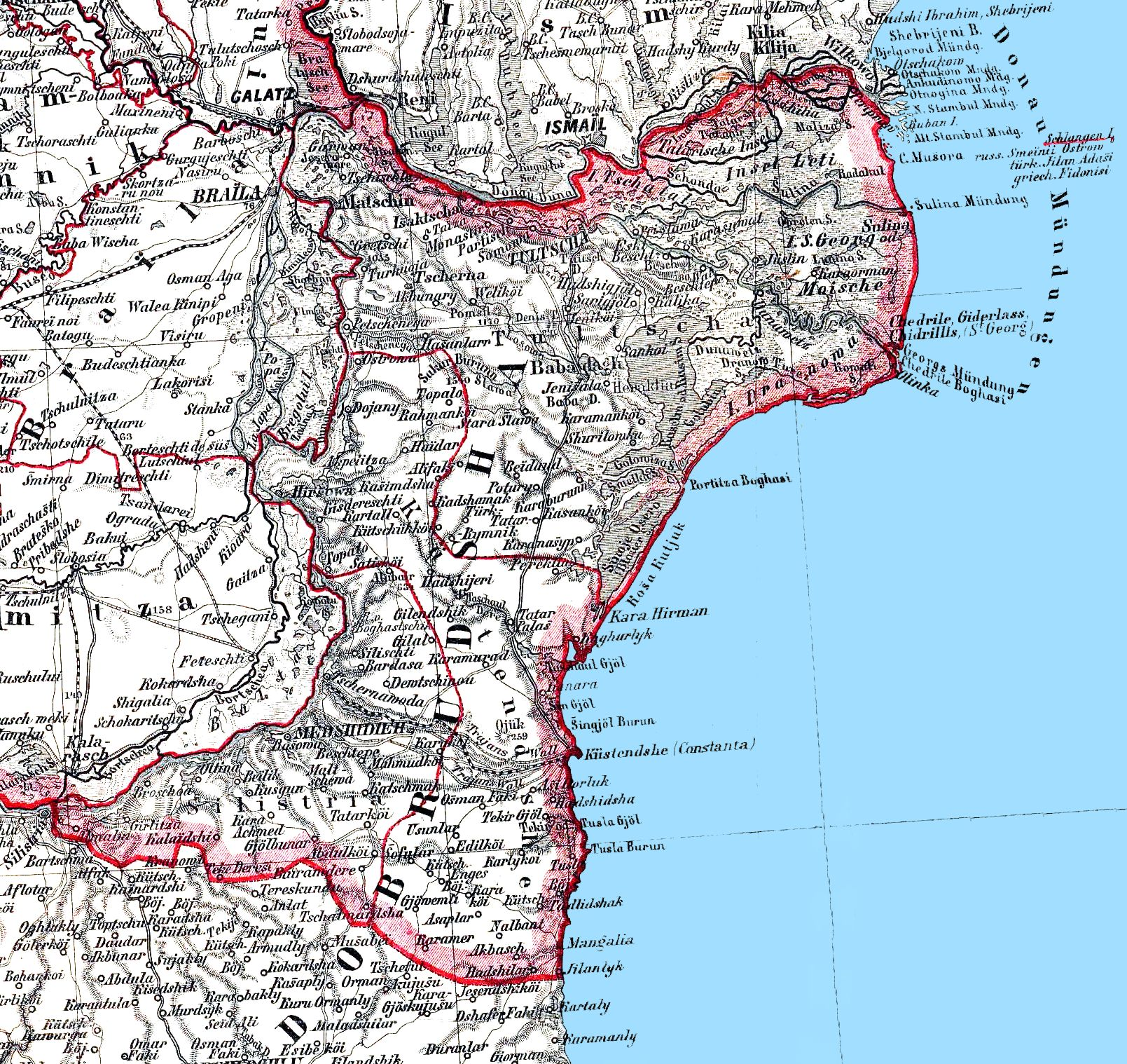 Map of Dobrudja between November 1878 and 9 April 1979